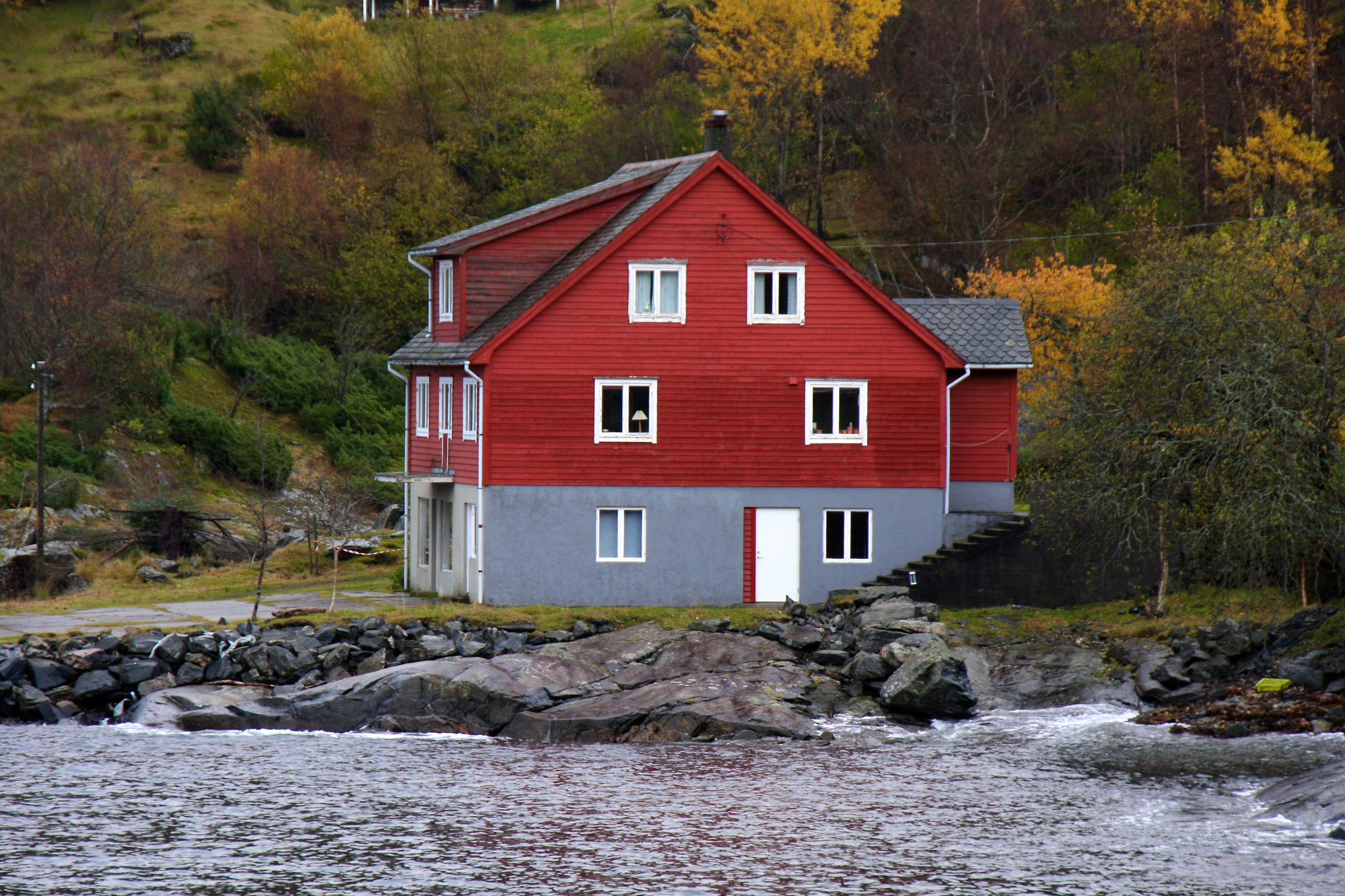 Sygnefest in Gulen municipality, Norway.